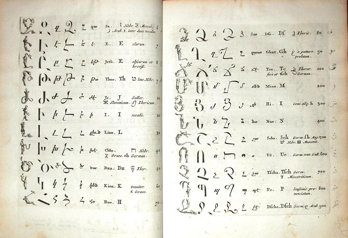 Armenian letters from «Thesaurus linguae Armenicae, antiquae et hodiernae» of Johann Joachim Schröder